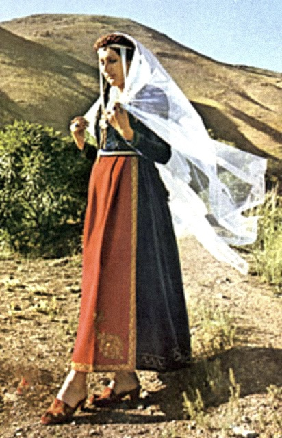 Akhaltzkha (19th c.) - Armenian bridal dress with an exquisite gold embroidery on a dark red gognots (apron).